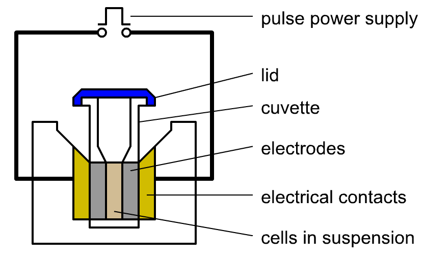 A diagram of the main components of an electroporator with cuvette loaded.